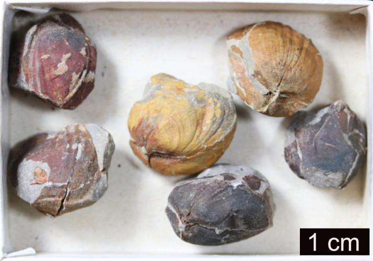 The brachiopod Eumetabolotoechia greeni (Cleland, 1911); Middle Devonian; Milwaukee Formation; Lindwurm Member; Milwaukee County, Wisconsin; Milwaukee Public Museum; collected by K.C. Gass; photograph originally published in K.C. Gass, J. Kluessendorf, D.G. Mikulic, and C.E. Brett, 2019. Fossils of the Milwaukee Formation: A Diverse Middle Devonian Biota from Wisconsin, USA. Siri Scientific Press, Manchester, UK.